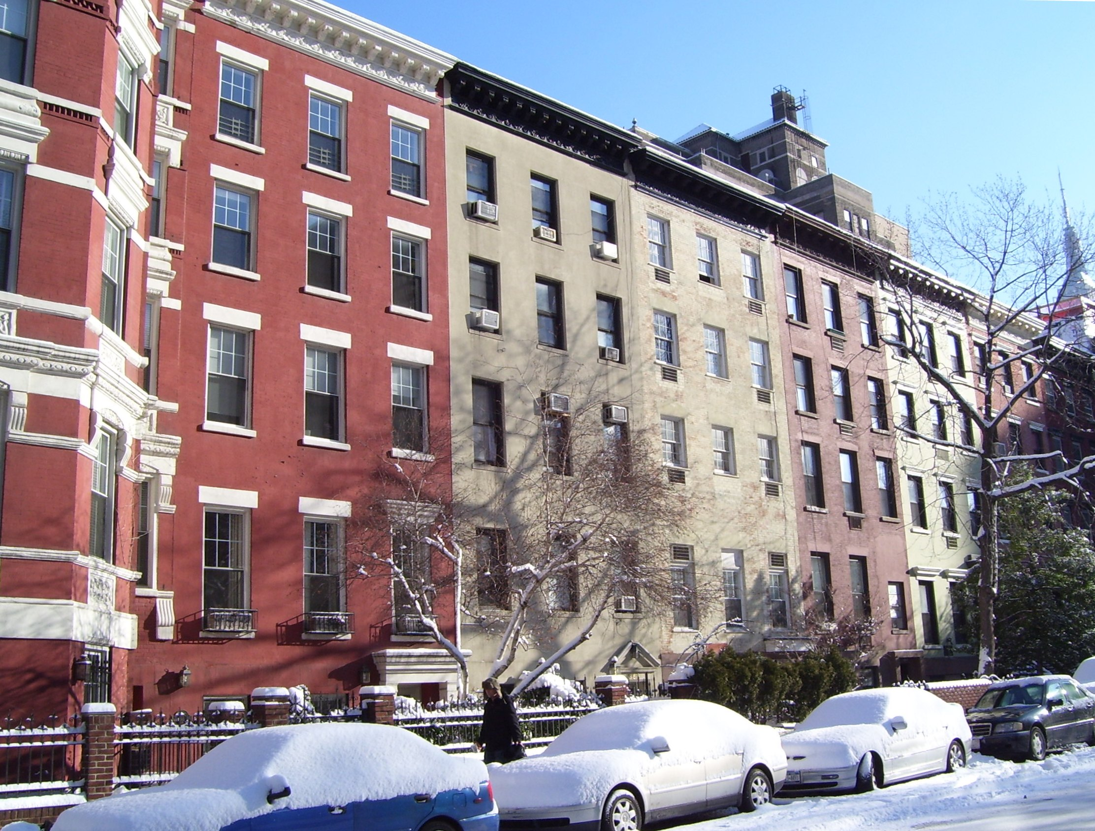 343-355 West 29th Street, part of the Lamartine Place Historic District in the Chelsea neighborhood of Manhattan, New York City. 343 - far right, top of red building, formerly 21 Lamartine Place, built:1846-7, 1893 alterations:George W. Greibel, Greek revival with Renaissance revial elements 345 - right, white building, formerly 22 Lamartine Place, built:1846-7, 1893 alterations:George W. Greibel, Greek revival with Renaissance revial elements 347 - center right (red), formerly 23 Lamartine Place, built:c.1852, 1903 alterations:John H. Kimble, Greek revival with Renaissance revial elements 349 - center (white), formerly 24 Lamartine Place, built:c.1852, 1924 alterations:Van F. Pruitt, Greek revival with Renaissance revial elements 351 - center left (grey), formerly 25 Lamartine Place, built:c.1852, 1888 alteration:George B. Pelham, Greek revival with Renaissance revial elements 353 - left, formerly 26 Lamartine Place, built:c.1852, 1889 alteration:George B. Pelham, Greek revival with Renaissance revial elements 355 - far left, formerly 27 Lamartine Place, built:c.1852, 1896 alterations:M.V.B. Ferdon, Renaissance revival style with neo-Grec elements {Source: "Lamartine Place Historic District Designation Report")